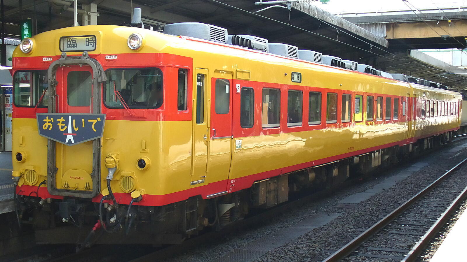 A JR East KiHa 58 series DMU at Sendai Station reliveried in the JNR school trip livery formerly carried by KiHa 58-800 series cars